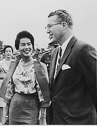 original caption at : "... Here Queen Sirikit visits with Colonel William McKean, Commander of the 27th, and U.S. Ambassador to Thailand, Kenneth T. Young, Jr. ..."